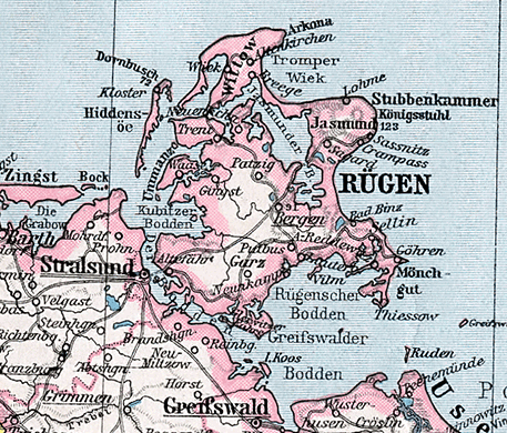 Detail from a map of Pomerania.